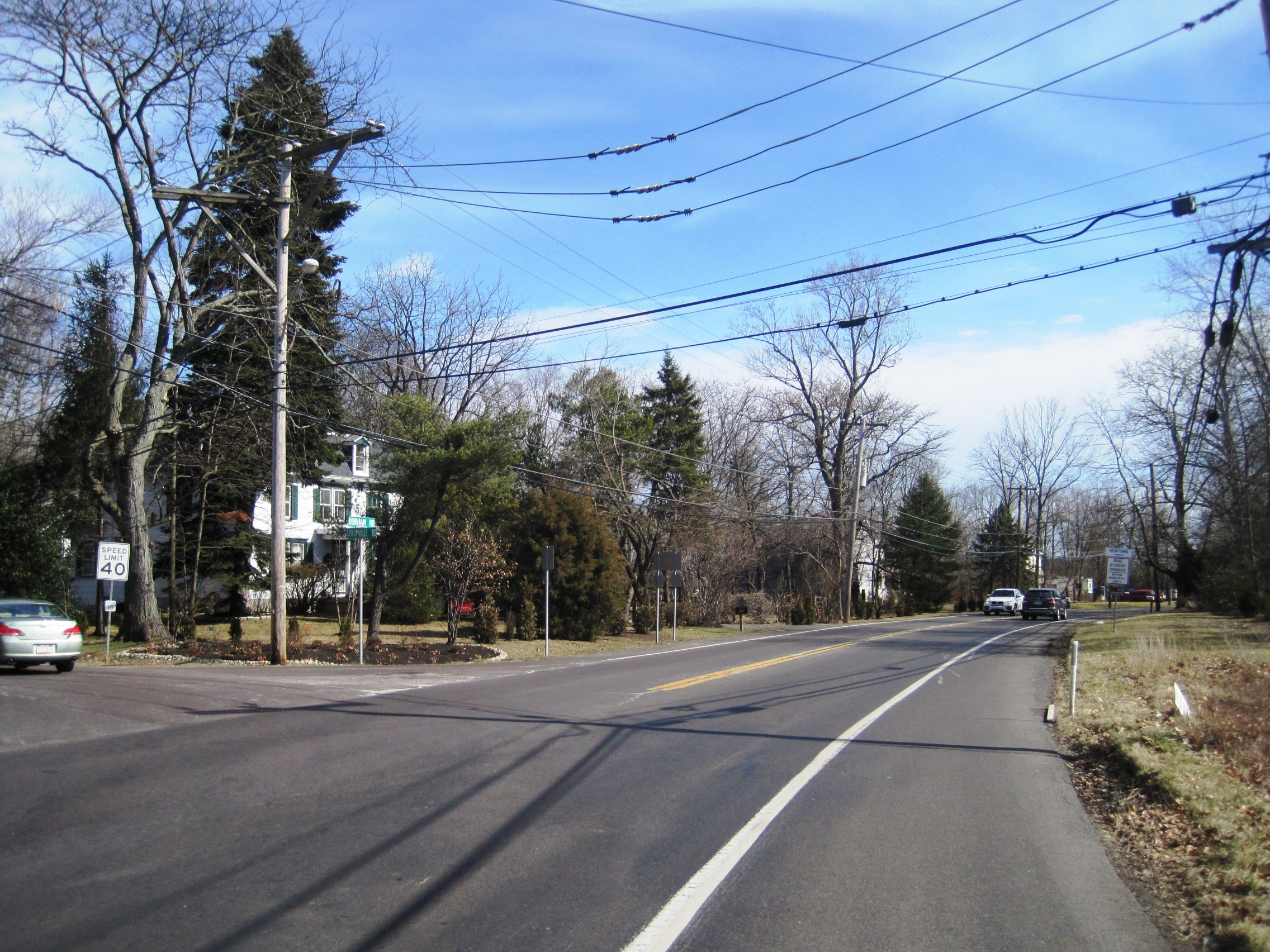 Photo showing Ryans Corner, Pennsylvania, an unincorporated community within Wrightstown Township, Bucks County. Photo taken along southbound Durham Road (Pennsylvania Route 413) at Stoopville Road.